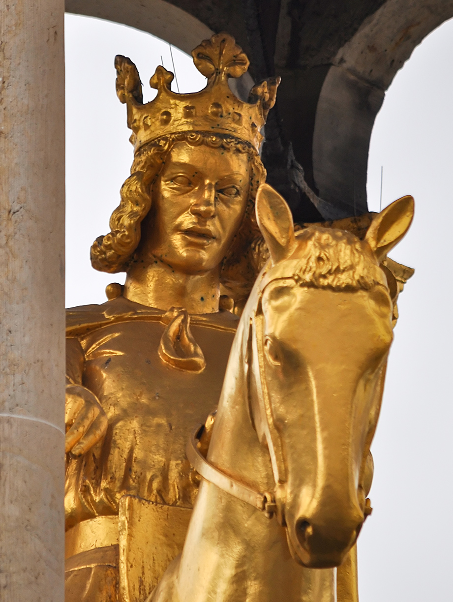 Statue of the Magdeburg Rider, thought to be of Otto I